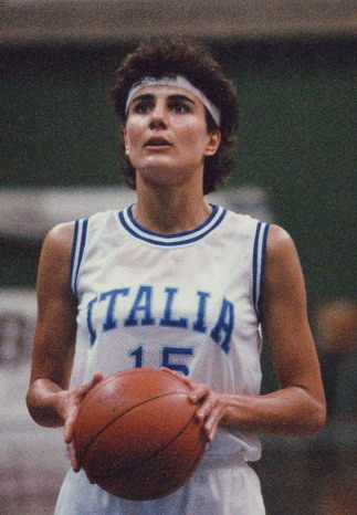 The Italian basketball players Stefania Passaro playing for Italy women's national basketball team